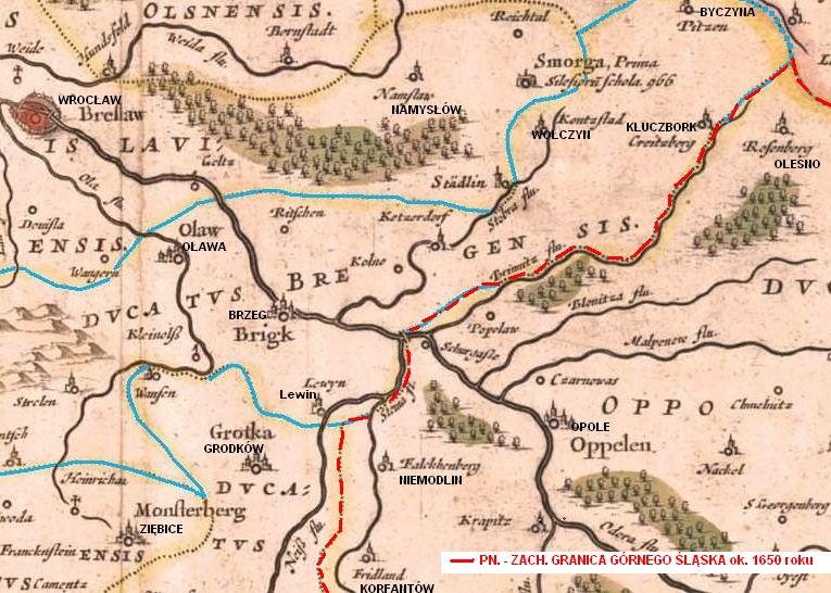 Borders between Upper and Lower Silesia in 17. century